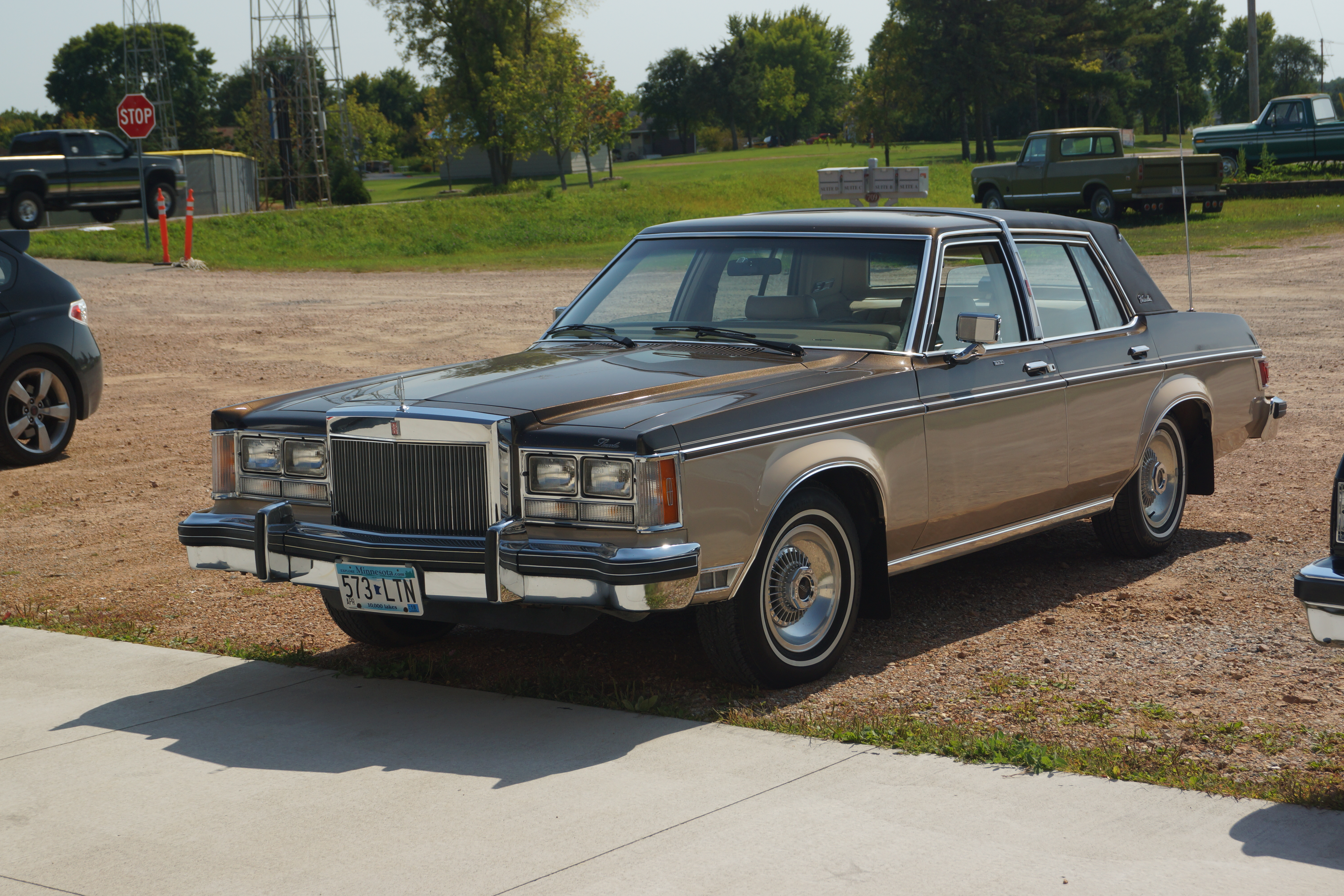 Click here for more car pictures at my Flickr site. Or here for my Car Crazy Tumblr site. Or on Twitter @DVS1mn.